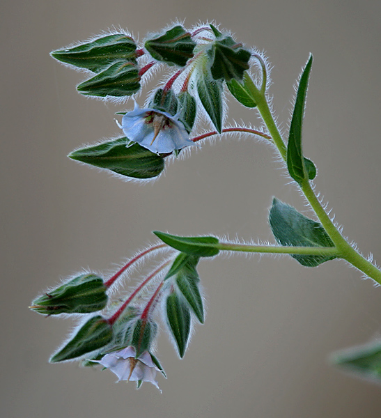 Chhota Kalpa Trichodesma indicum in Bhongir Fort, Andhra Pradesh, India.